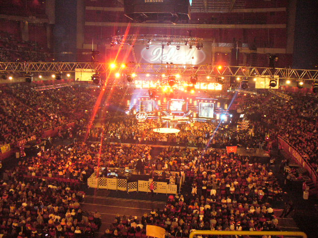 View over the Stockholm Globe Arena during the final of the Swedish Idol 2008.